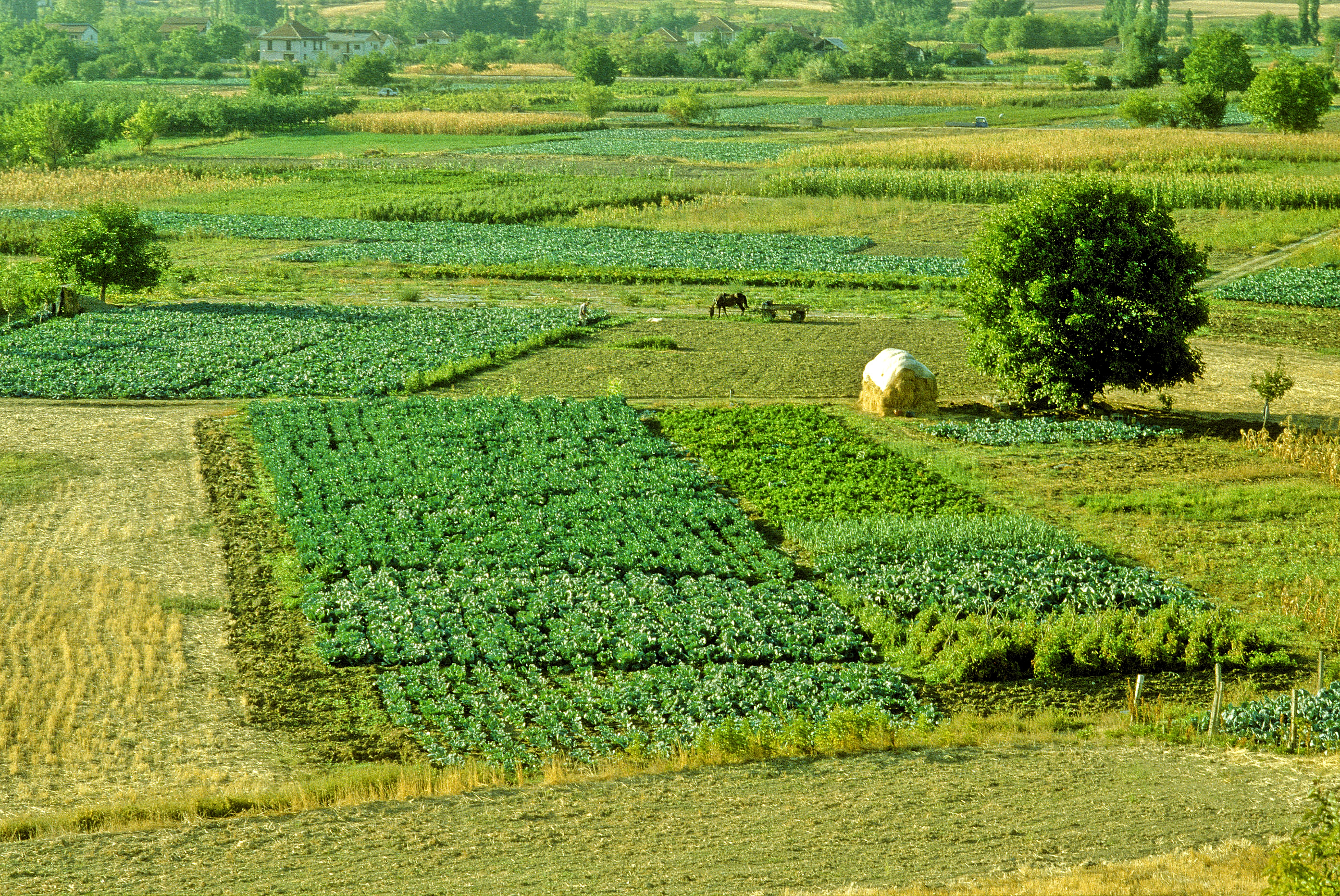 Fields in Orman, Skopje